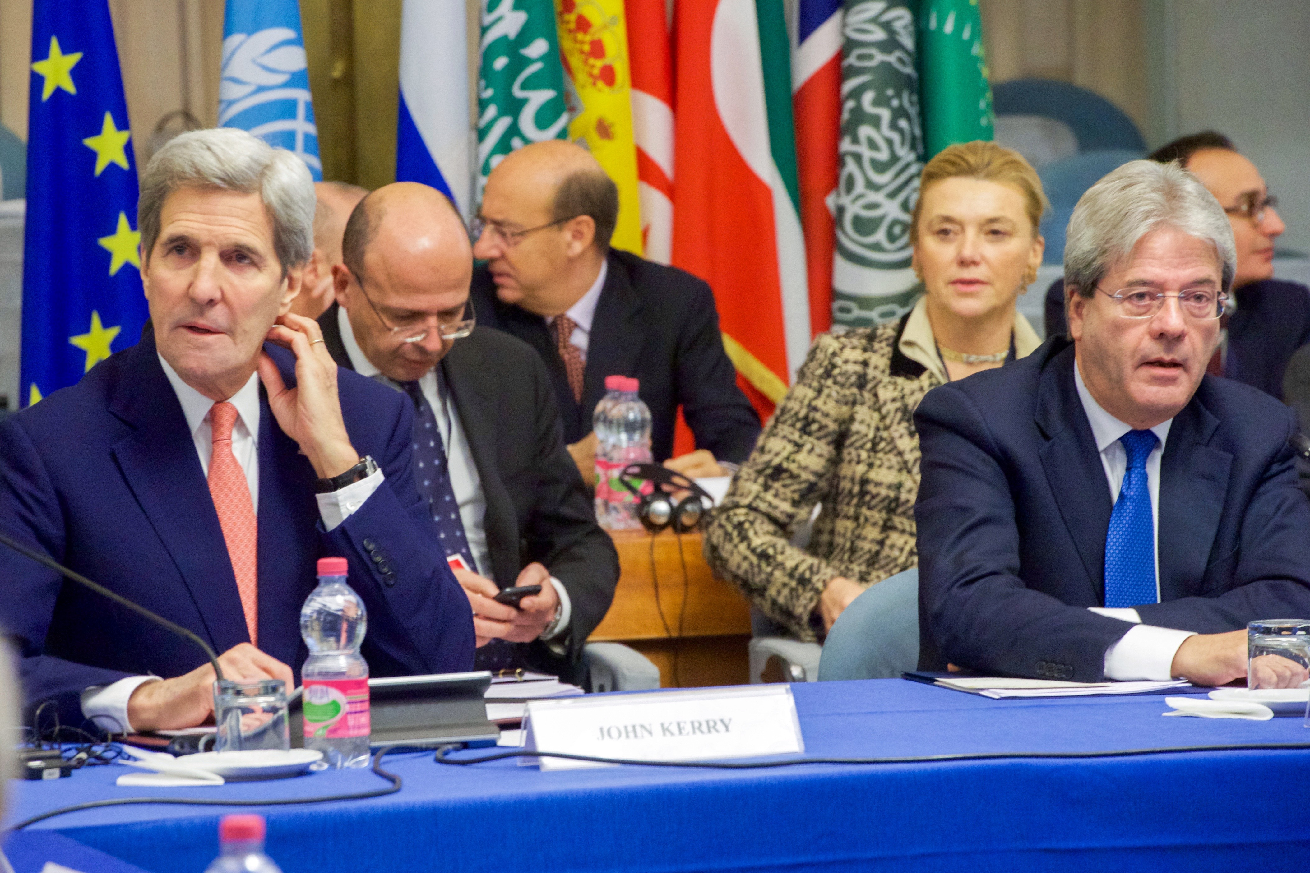 U.S. Secretary of State John Kerry sits with Italian Foreign Minister Paolo Gentiloni and United Nations Special Representative for Libya Martin Kobler at the Italian Foreign Ministry in Rome, Italy, on December 13, 2015, at the outset of a meeting with their regional counterparts about the future of Libya. [State Department photo/ Public Domain]